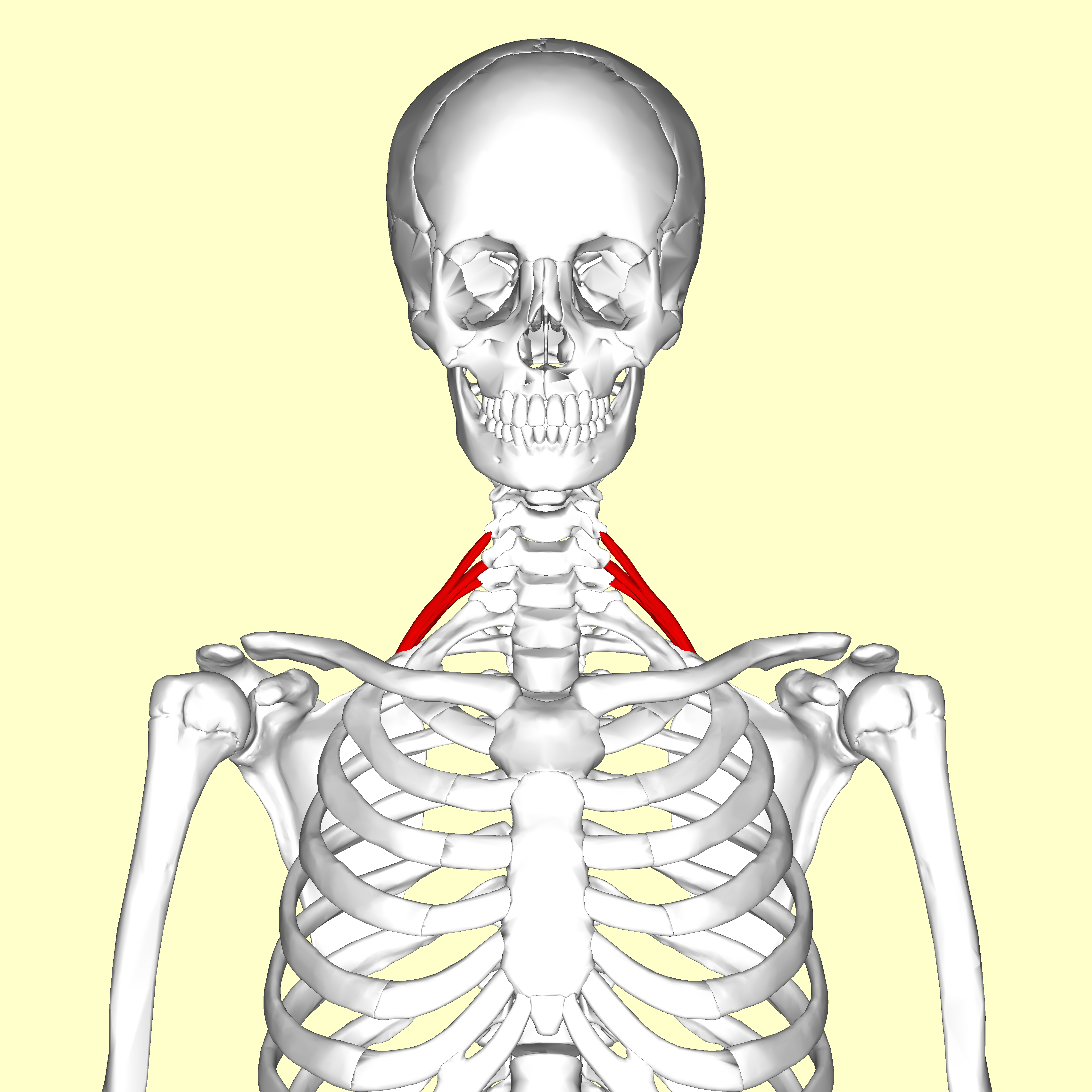 Scalenus posterior.